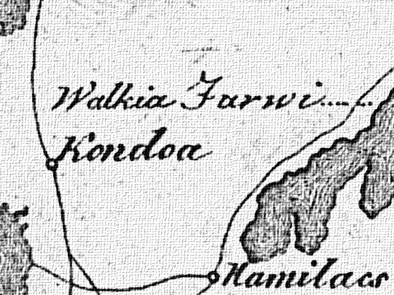 Конново на карте 1676 года